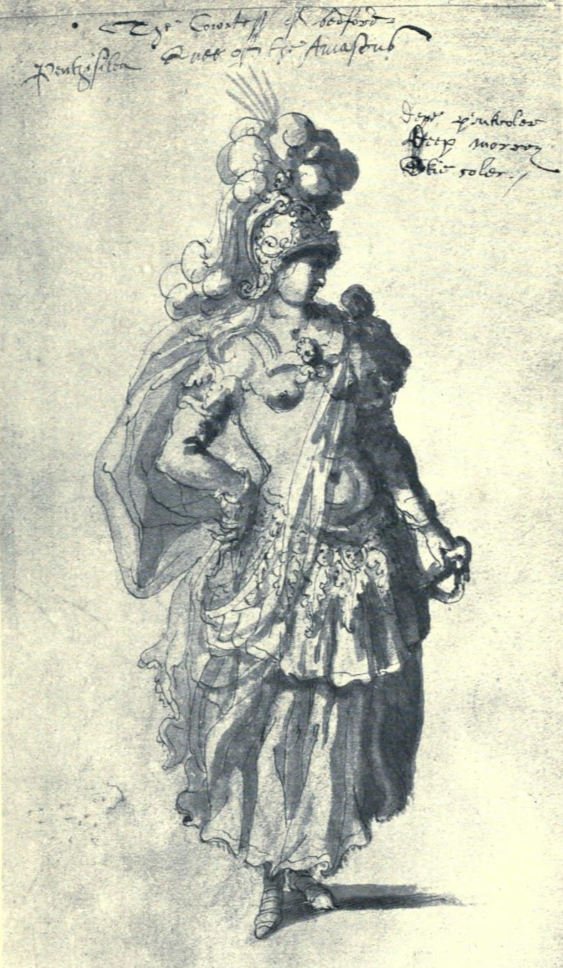 Costume design for Penthesilea in The Masque of Queens